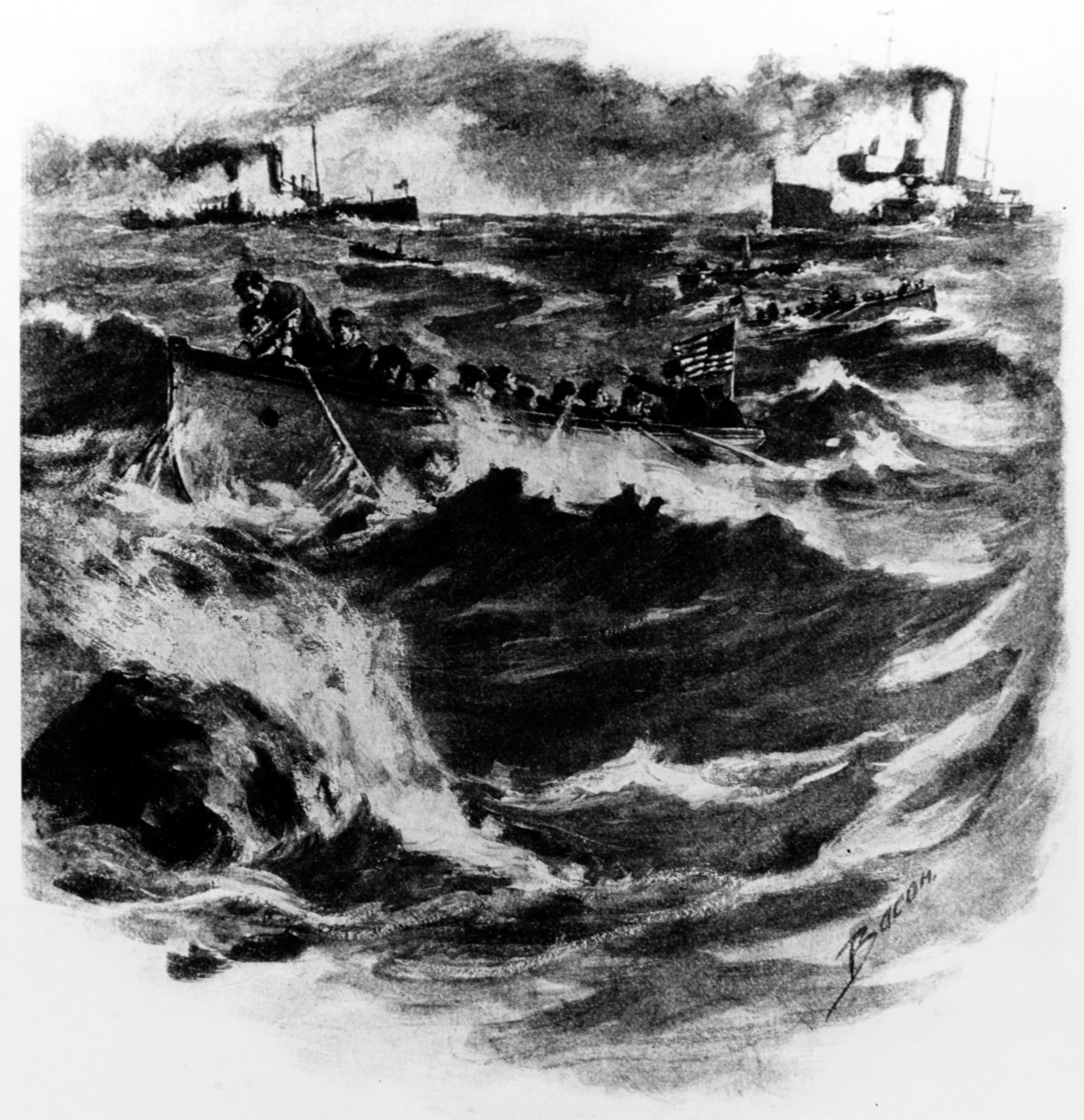 "The cable-cutting expedition at Cienfuegos" Depiction of the Battle of Cienfuegos, Cuba, 11 May 1898, part of the Spanish-American War. Halftone reproduction of an artwork, published in Deeds of Valor, Volume II, page 358, by the Perrien-Keydel Company, Detroit, 1907. It depicts boats from USS Nashville (Gunboat # 7) and USS Marblehead (Cruiser # 11) cutting underwater telegraph cables off Cienfuegos, Cuba, while under intense Spanish gunfire. Their ships are shown in the background, returning fire, with Nashville on the right and Marblehead at left. The Medal of Honor was liberally awarded to those who participated in this operation.